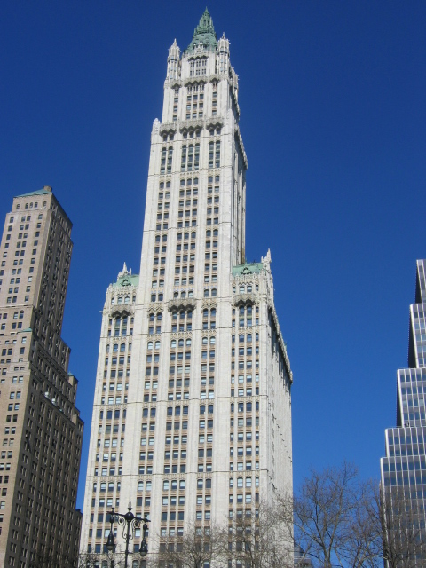 Woolworth Building, Manhattan, New York City.